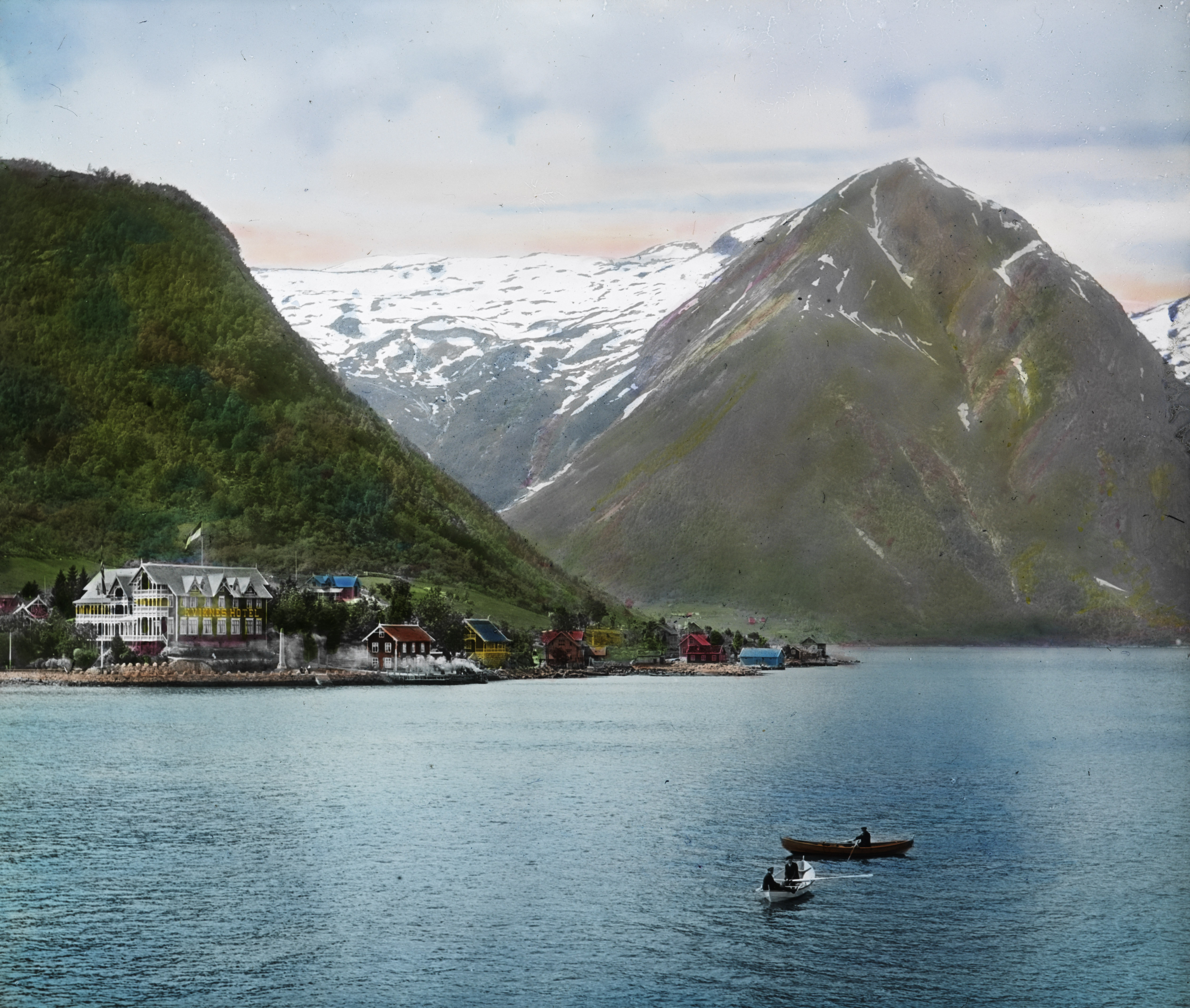 SFFf-1992078.0007 Kviknes Hotel, located on the Balholm peninsula in Balestrand, Sogn.